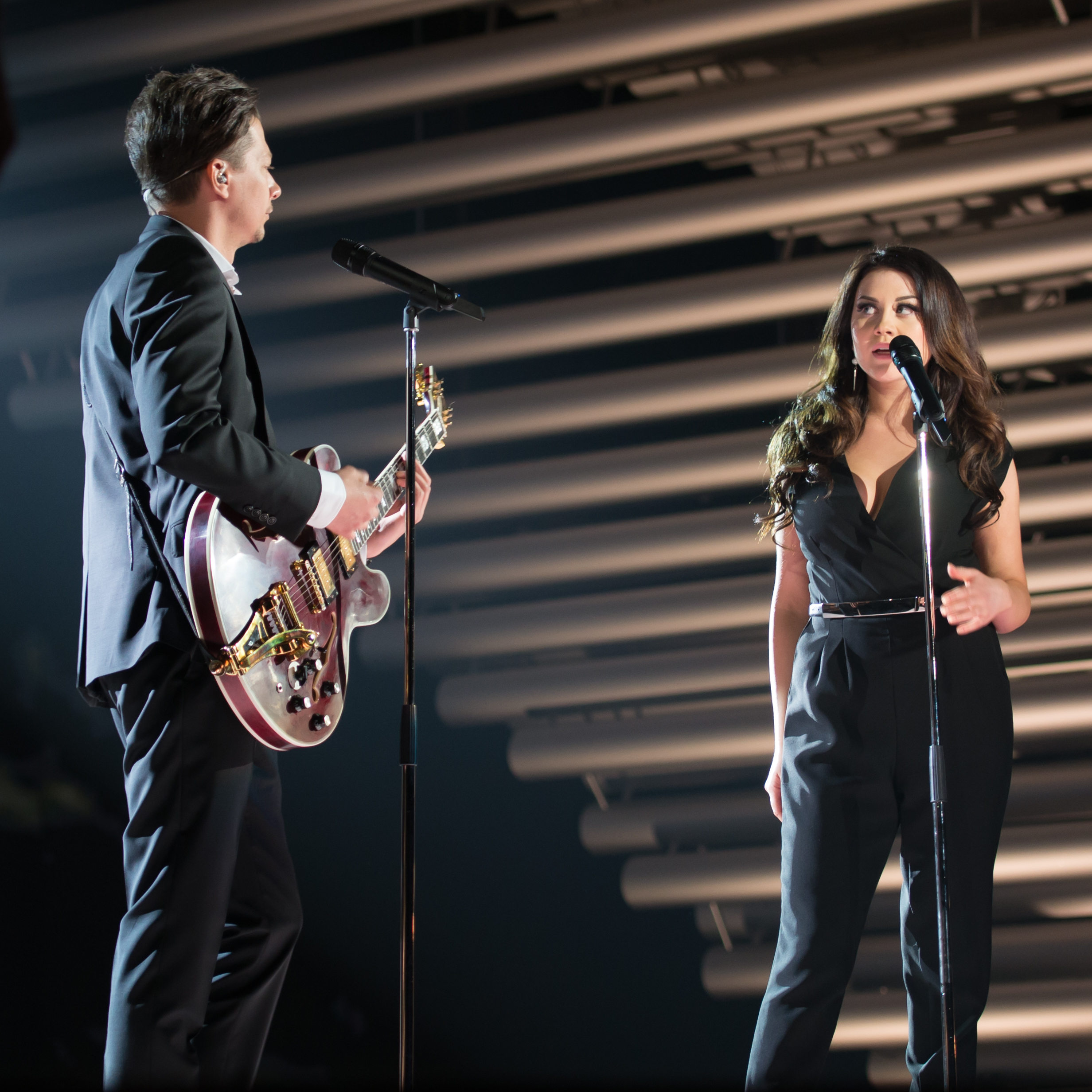 Eurovision Song Contest Vienna 2015: Elina Born & Stig Rästa